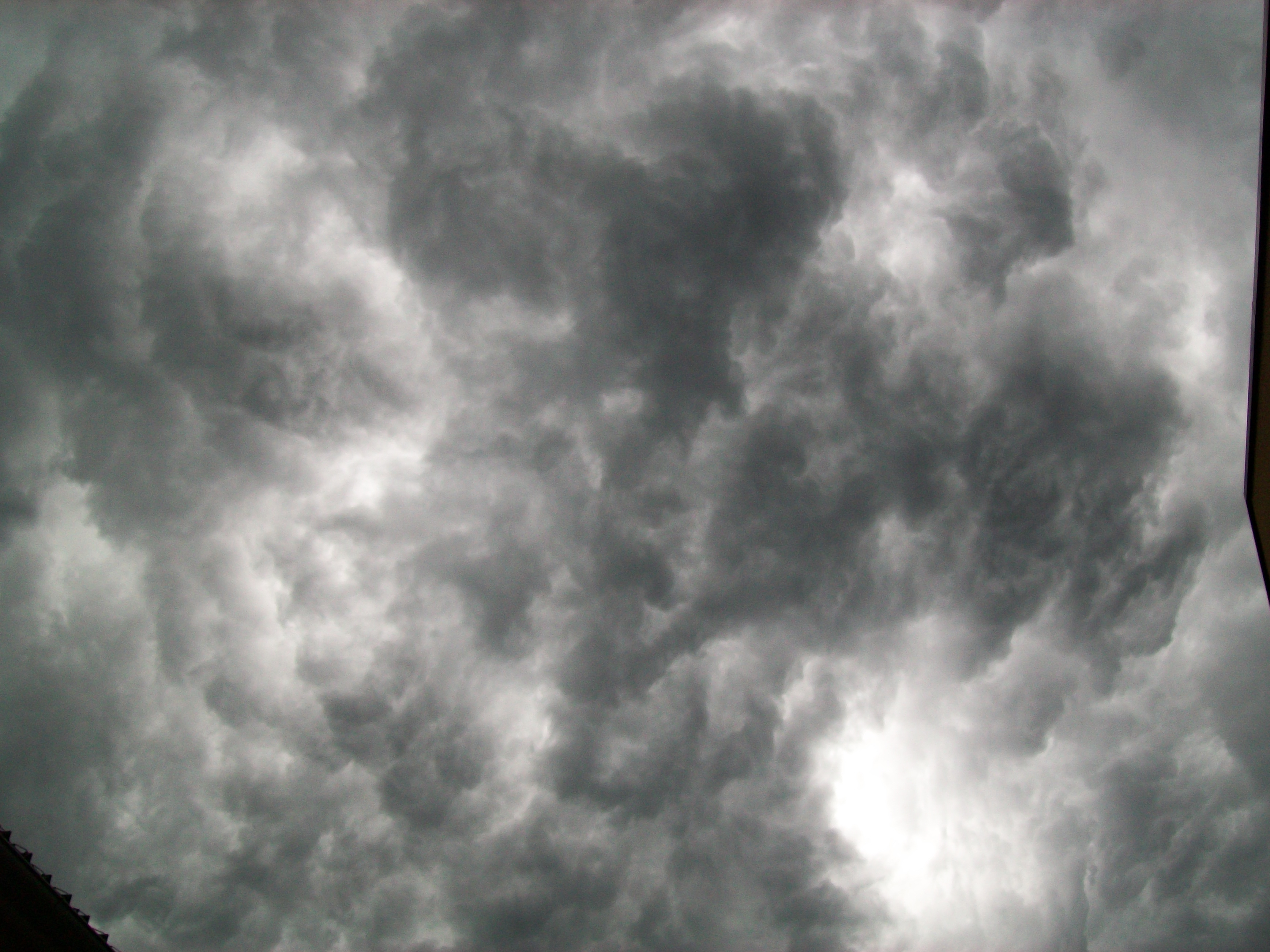 Directly under a thunderstorm Direkt unter einer Gewitterwolke